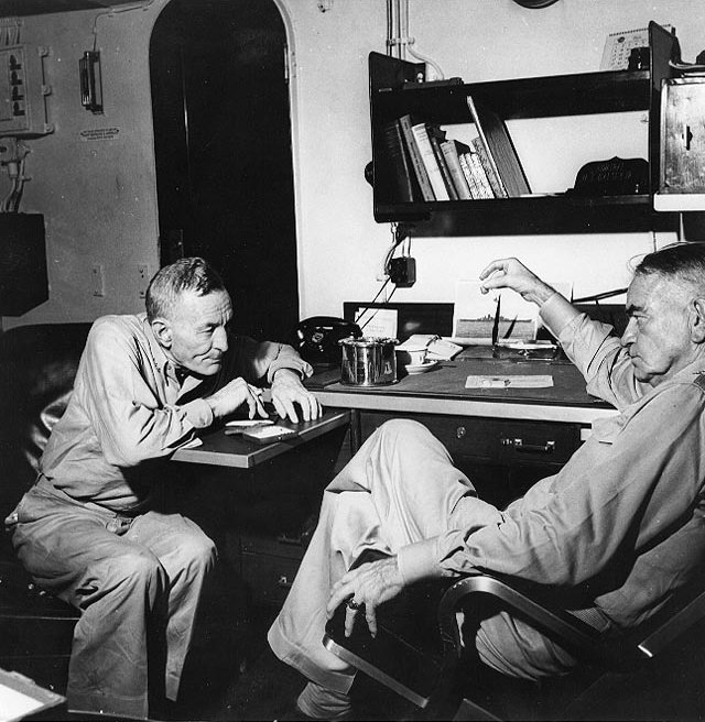 Admiral William F. Halsey, Jr., USN, Commander, Third Fleet (right) confers with Task Force 38 commander Vice Admiral John S. McCain, at Halsey's desk on board the Third Fleet flagship, New Jersey (BB-62), December 1944.